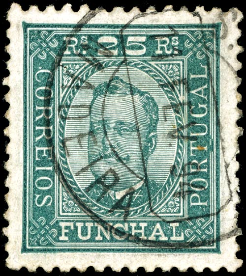 Funchal 25-reis stamp of 1892